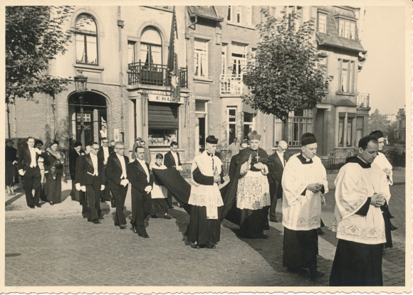 Petrus Canisius van Lierde